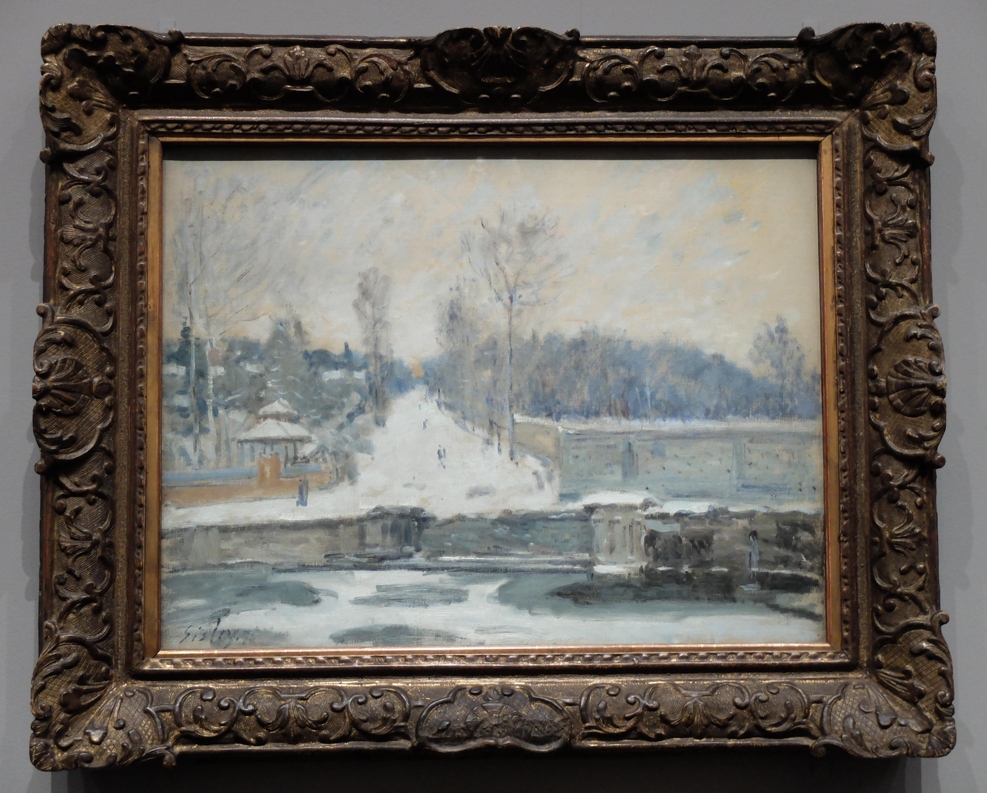 The Watering place at Marly in winter